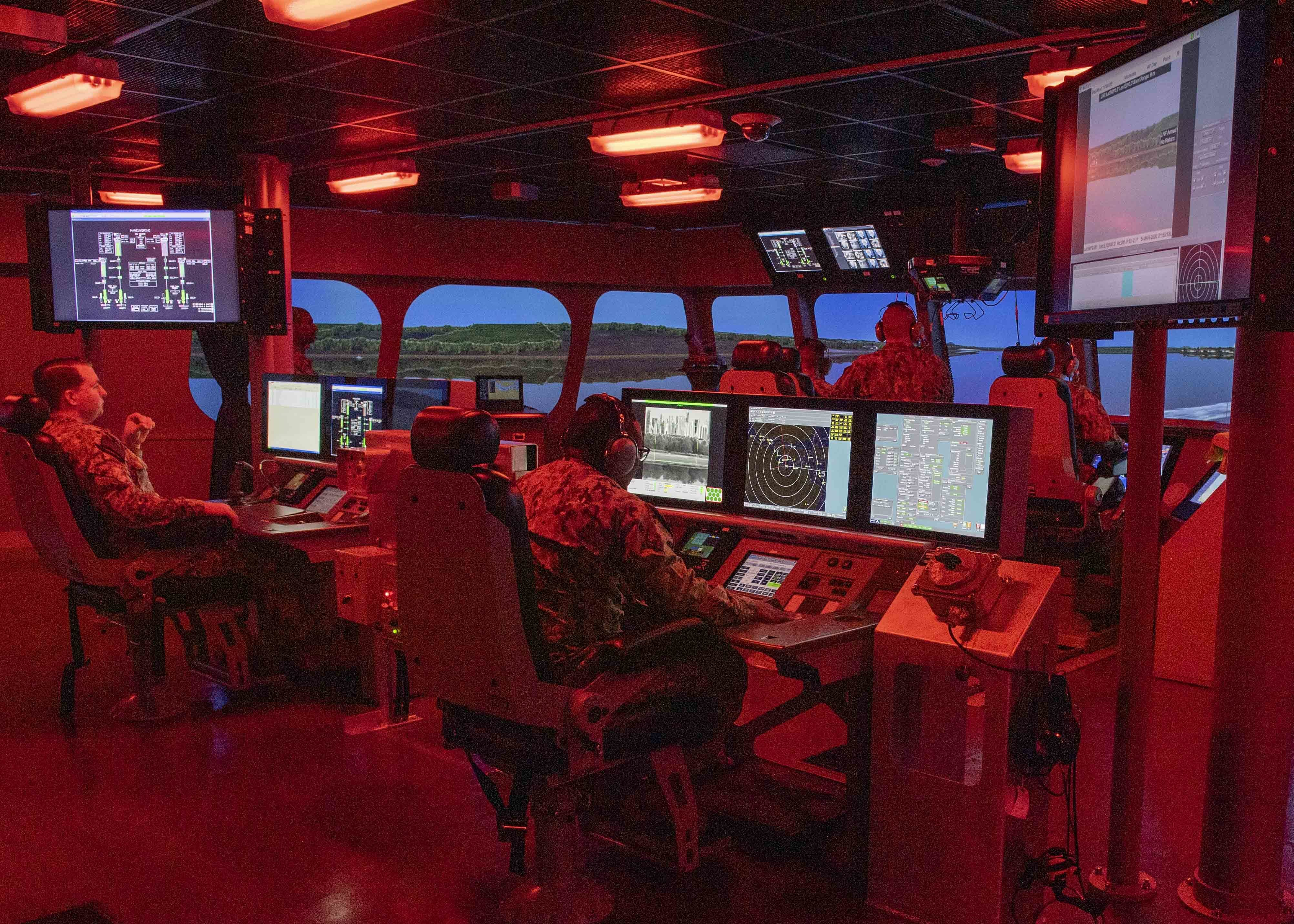 SAN DIEGO (March 5, 2020) – Sailors stand a simulated watch on the bridge of the Littoral Combat Ship (LCS) Integrated Tactical Trainer (ITT)-2B at the Littoral Training Facility on Naval Base San Diego, March 5, 2020. The LCS ITT-2B immerses Sailors in a completely virtual environment complemented by real hardware that makes it feel as if they’re actually on the ship. (U.S. Navy photo by Mass Communication Specialist 3rd Class Kevin C. Leitner/Released)200305-N-OA516-1088